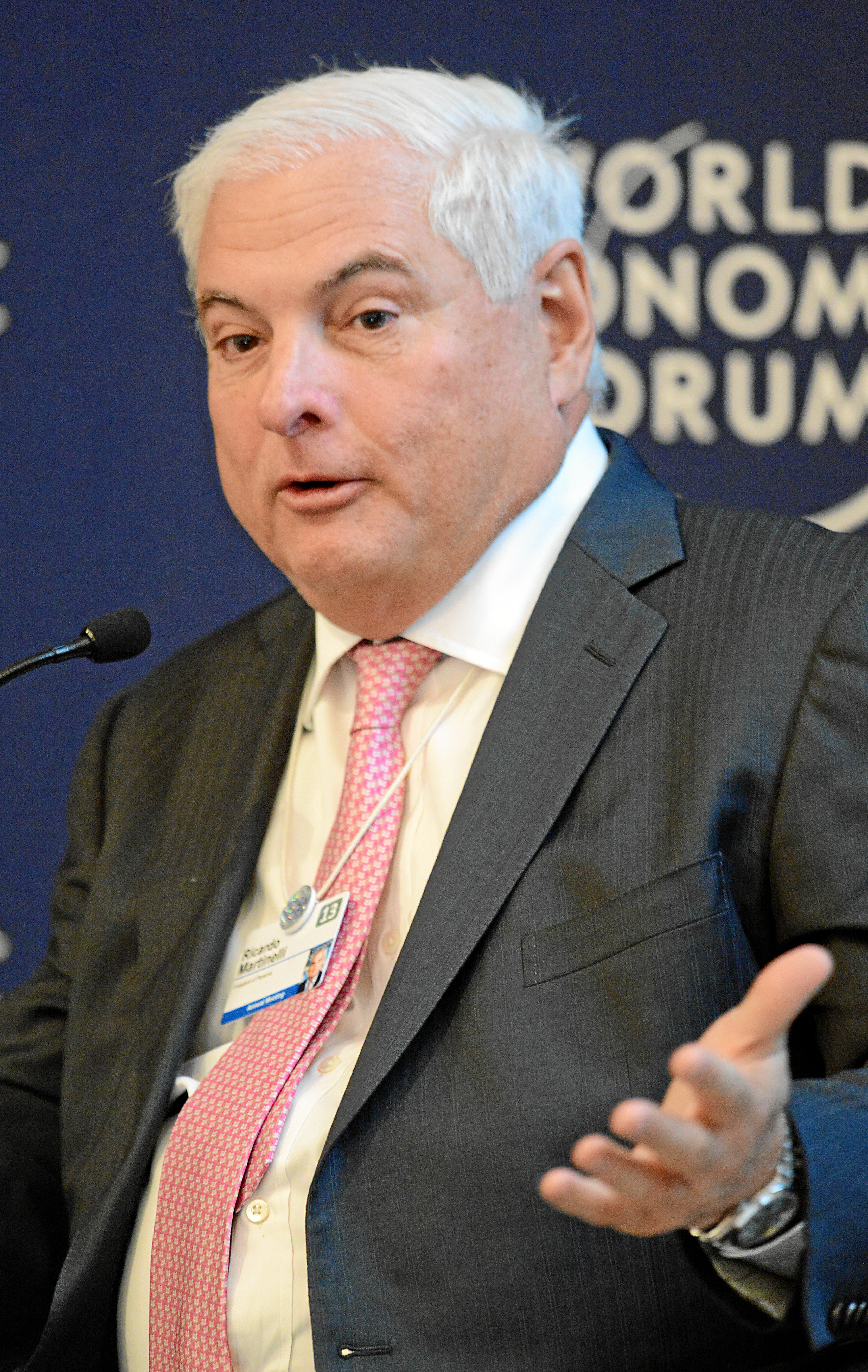 DAVOS/SWITZERLAND, 24JAN13 - Ricardo Martinelli, President of Panama gestures during the session 'Accelerating Infrastructure Development' at the Annual Meeting 2013 of the World Economic Forum in Davos, Switzerland, January 24, 2013. . . Copyright by World Economic Forum. . Michael Wuertenberg